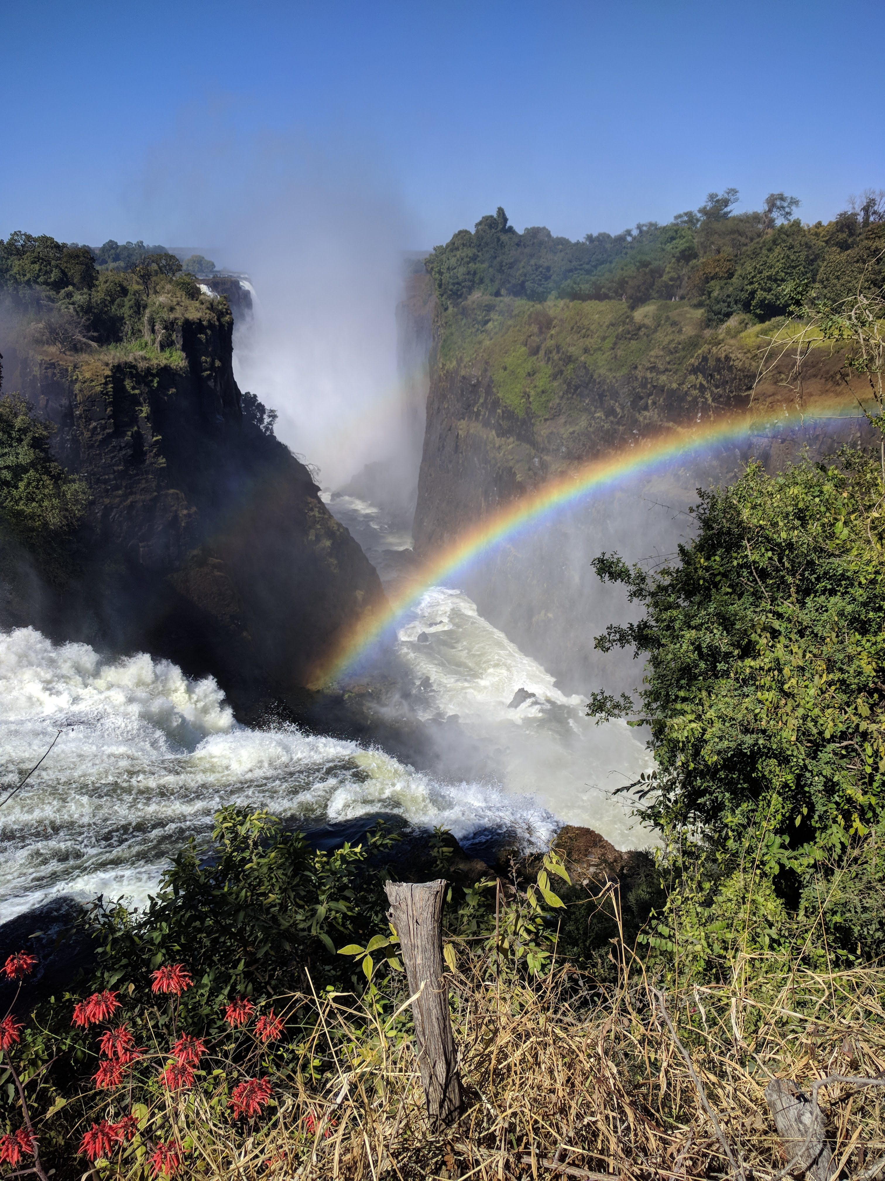 Victoria falls July 2018